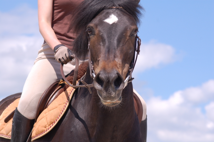 New Forest pony head